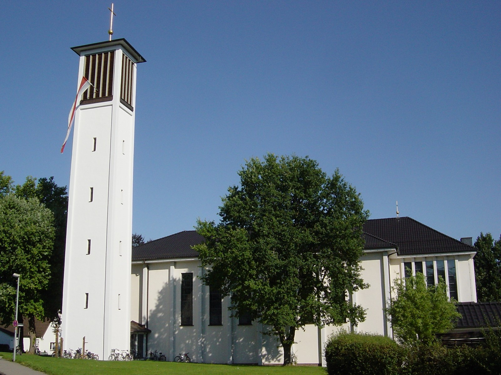 Catholic church St. Peter und Paul Höxter (Germany)